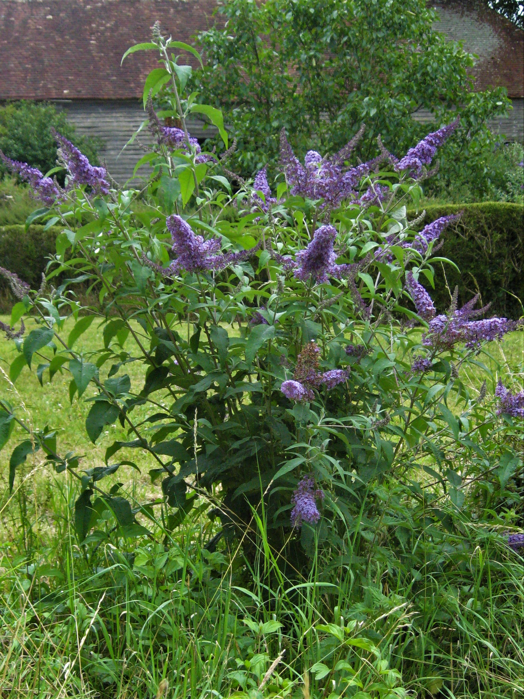 Photo of Buddleja davidii 'Greenway's River Dart'